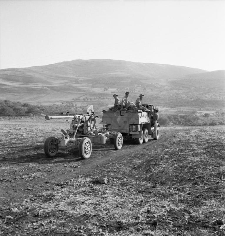 The British Army in North Africa and the Middle East 40mm anti-aircraft gun being towed in Syria, 16 June 1941.